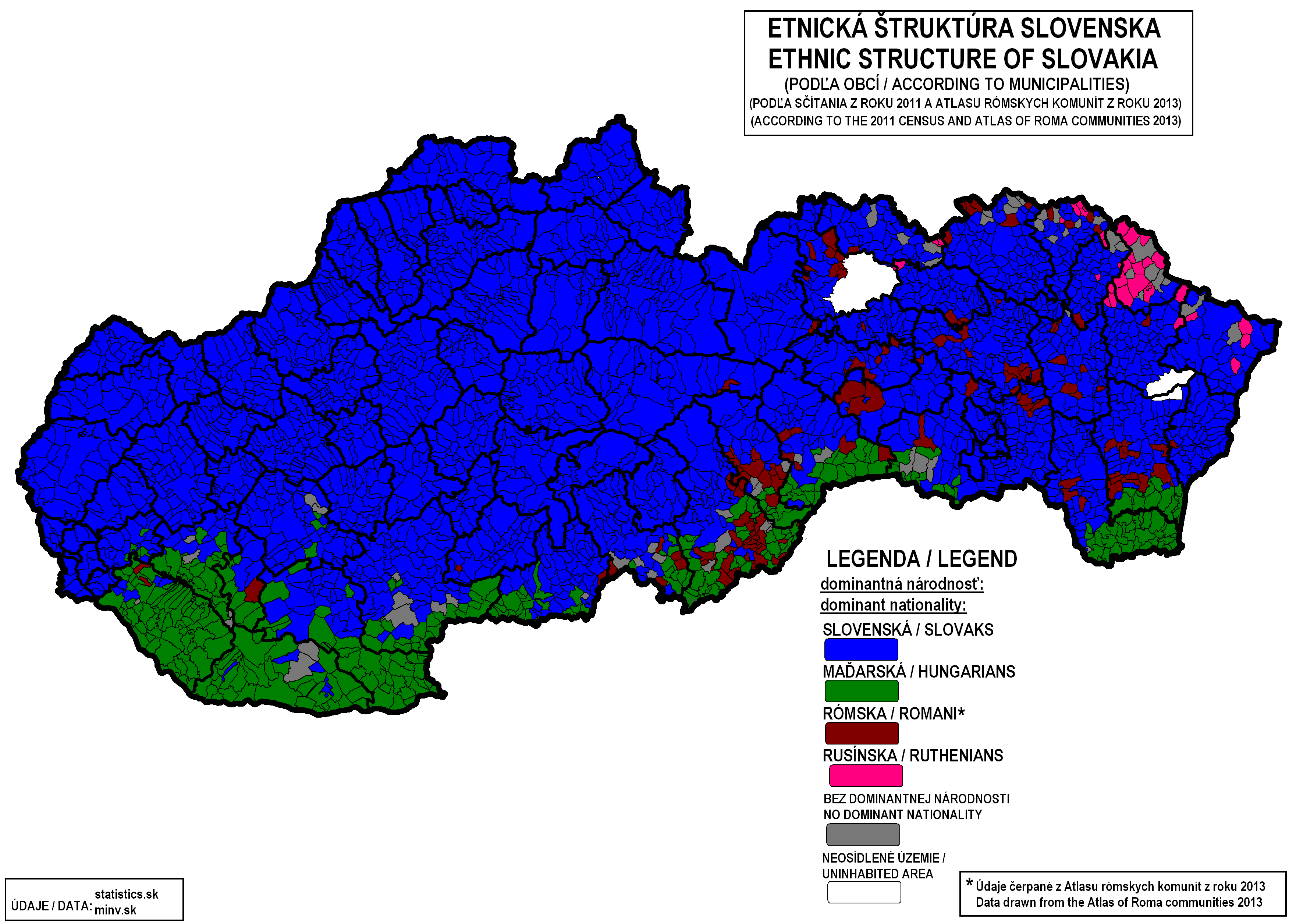 Ethnic structure of Slovakia according Census 2011 and the Atlas of Roma communities 2013.